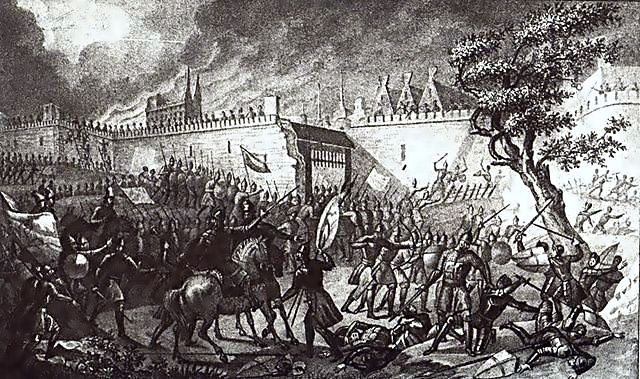 Russians capturing Narva in 1558